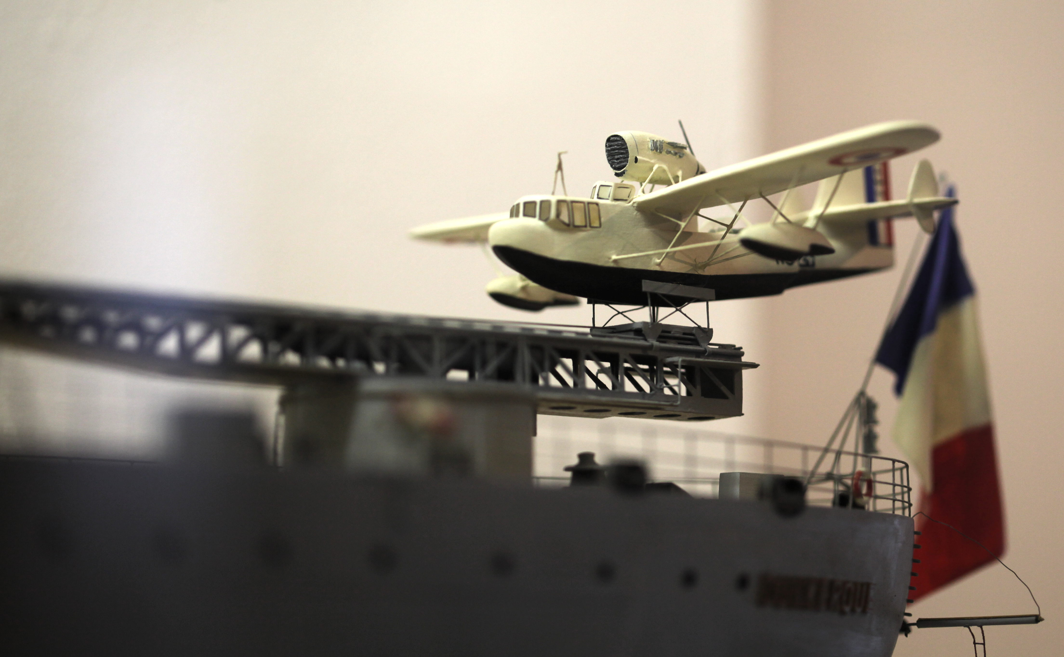 Model of the Dunkerque: Loire 130 seaplane